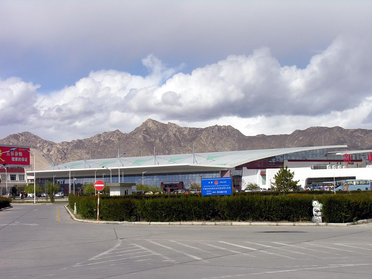 Lhasa Gonggar Airport